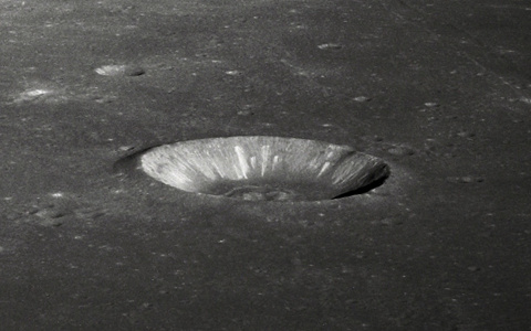 Oblique view of Manners, on the moon.